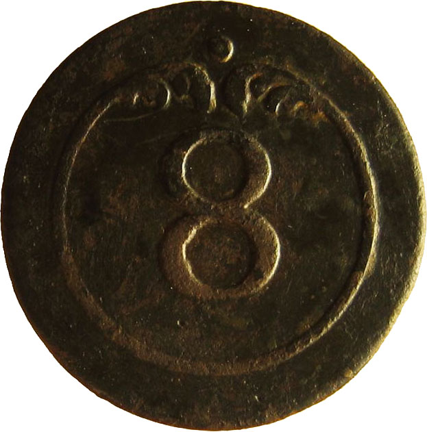 Military button of the 8e Regiment d'Infanterie Legere Regimental History 1788: Created 8e Bataillon de Chasseurs des Vosages 1791: 8e Regiment d'Infanterie Legere(8e bataillon de Chasseurs) 1795: 8e Demi-Brigade d'Infanterie Legere(1st formation, formed from the following)